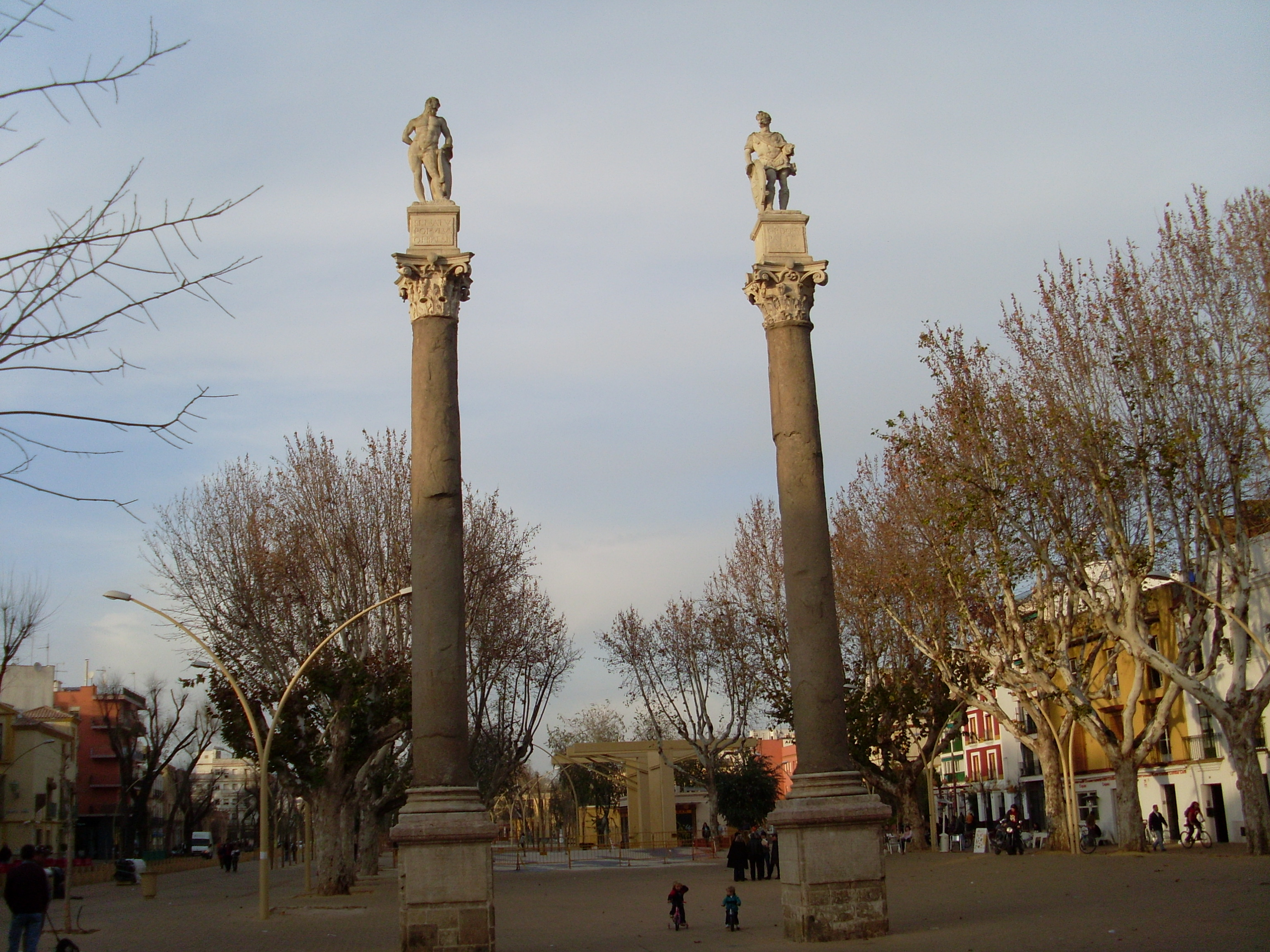 The Alameda today.